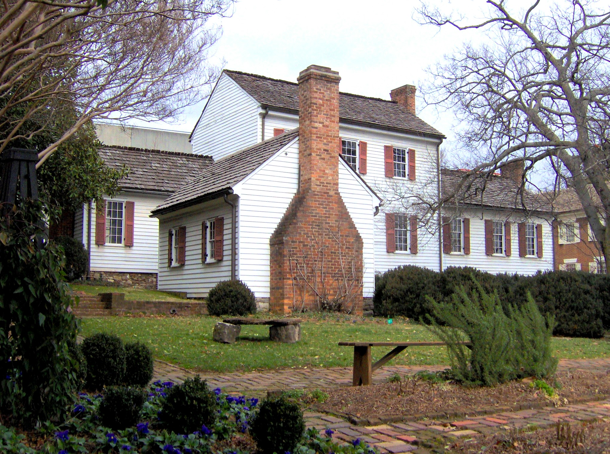 Blount Mansion in Knoxville, Tennessee, in the southeastern United States. Blount Mansion, built in 1792, was the home of William Blount, governor of the Territory South of the Ohio River (now Tennessee) in the 1790s. The mansion was added to the National Register of Historic Places in 1966. The building in the foreground is the mansion's detached kitchen.